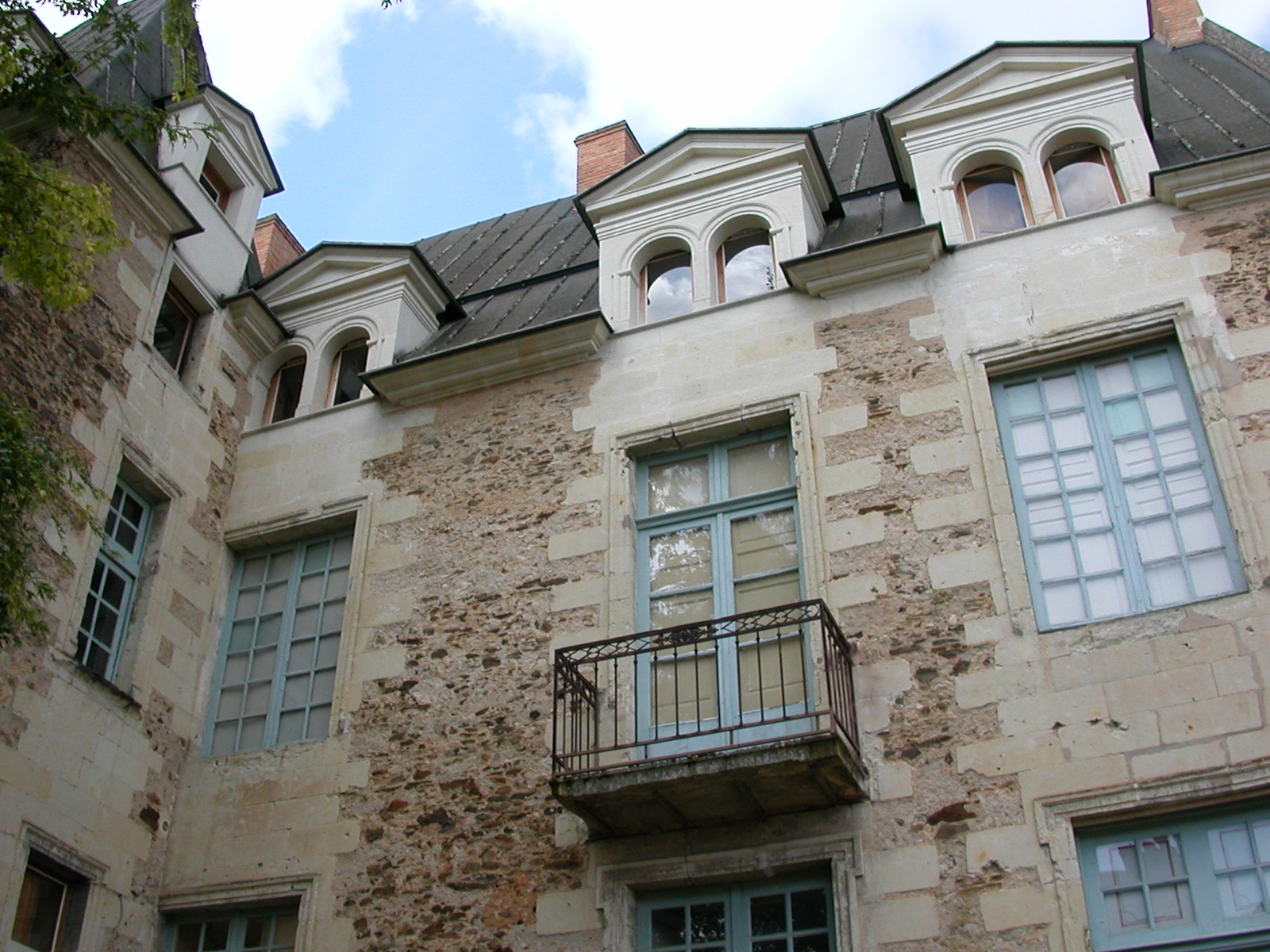 Hôtel de Lantivy in Château-Gontier, mansion of the XVIth century